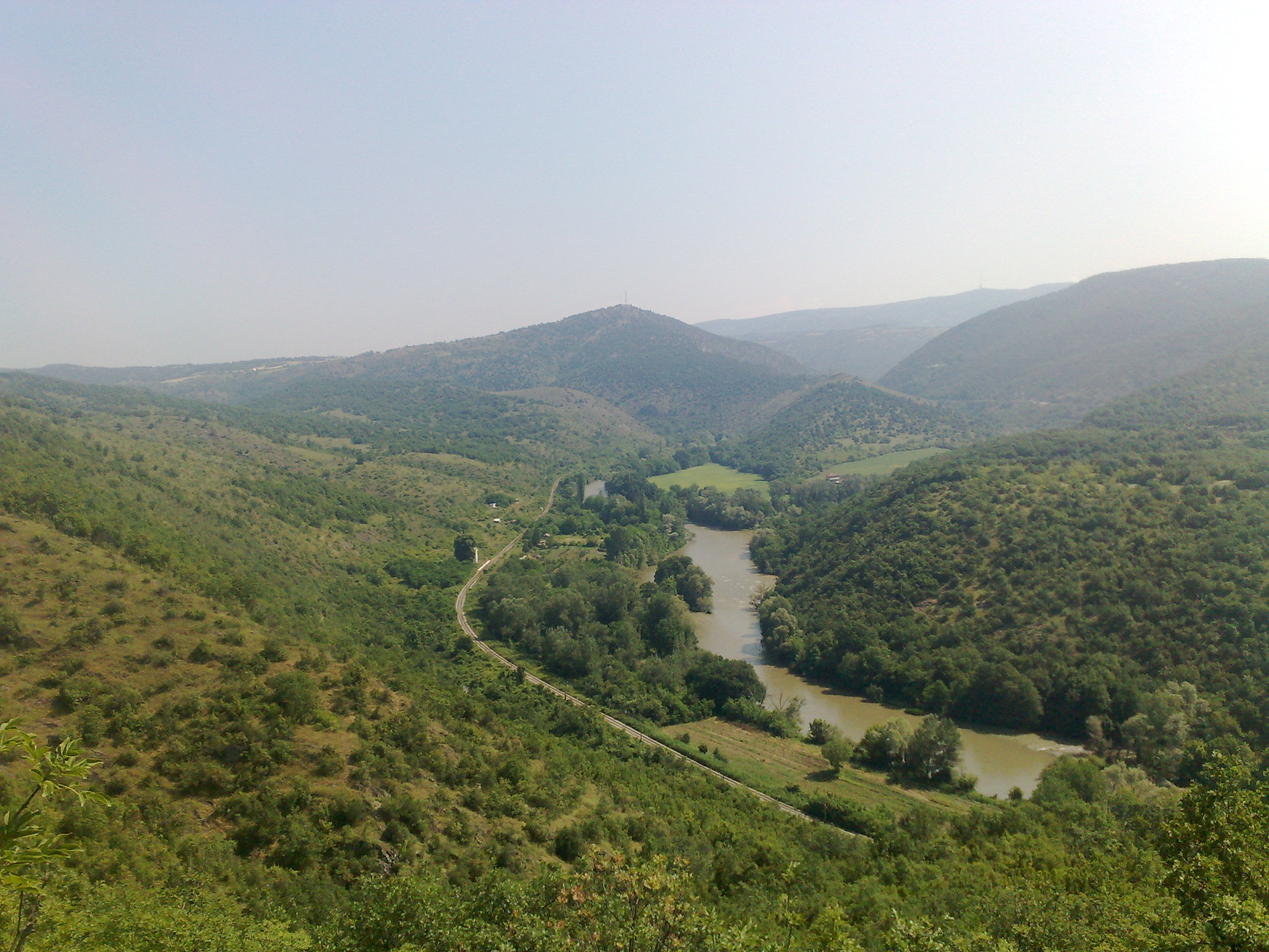 River Vardar in Taor Gorge, Macedonia